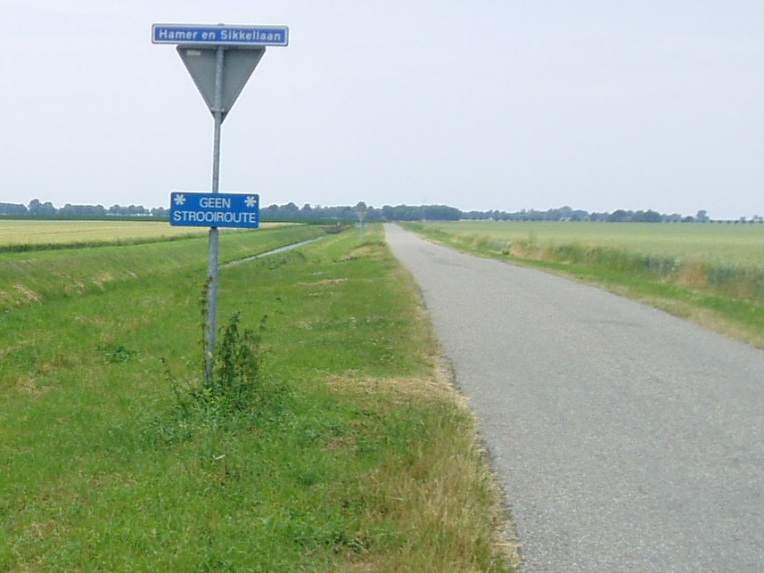 Entrance to the 'Hamer en Sikkellaan' (Hammer and sickle avenue) as seen from the road between Beerta and Nieuw-Beerta in Eastern Groningen, Netherlands.